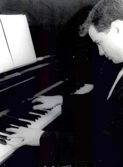 English Australian Composer Julian Cochran at piano in 1998